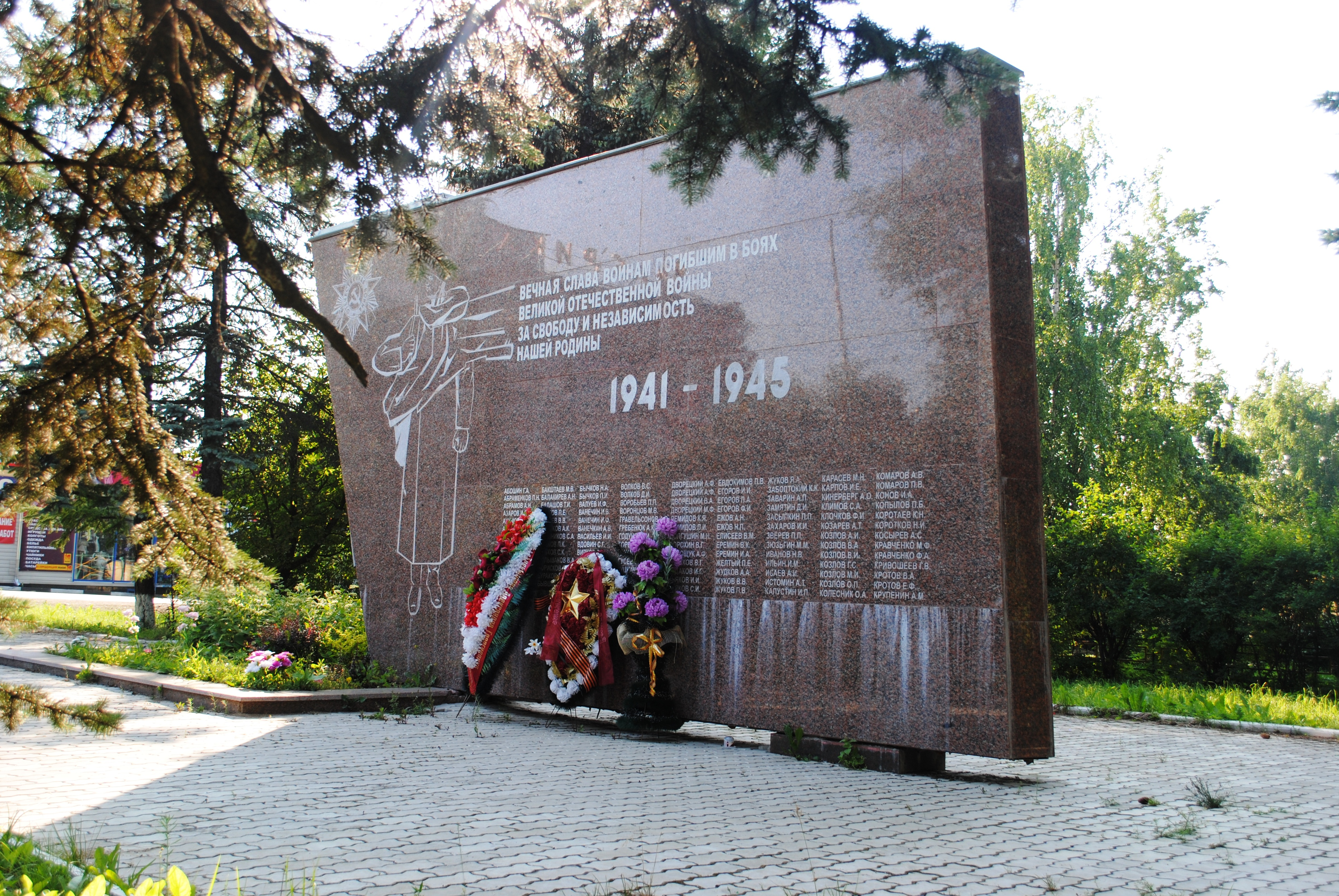 Udino